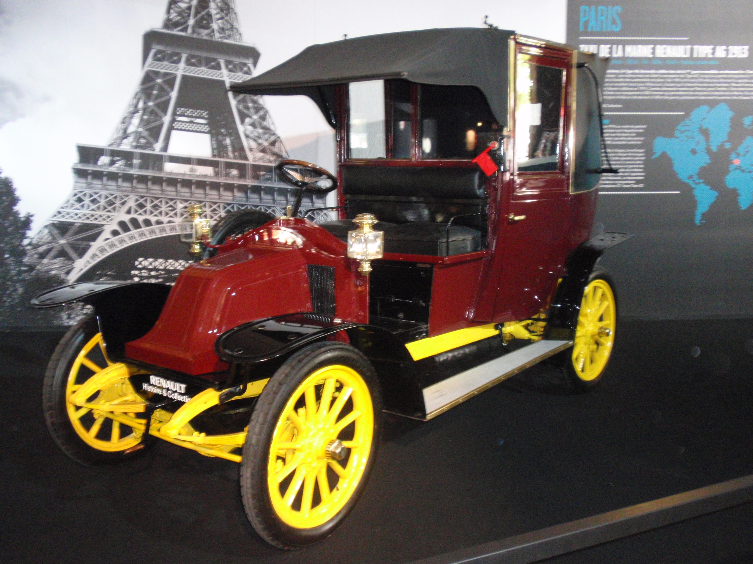 Renault Taxi de la Marne at the 2008 Paris Motor Show